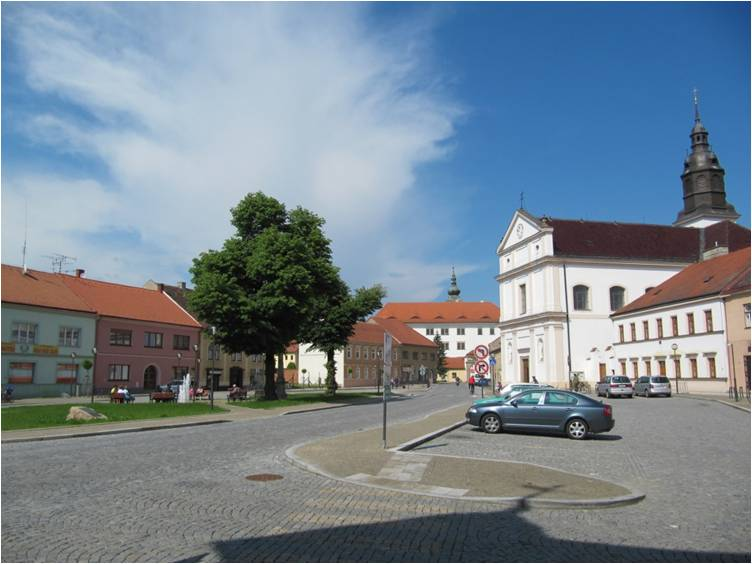 Uherský Ostroh in Uherské Hradiště District, Czech Republic. Náměstí Svatého Ondřeje with church, castle in the background.